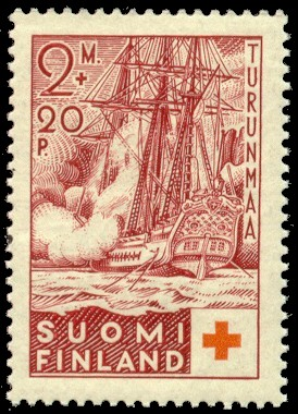 Postage stamp depicting the old Finnish oar frigate Lodbrok in the Turunmaa fleet